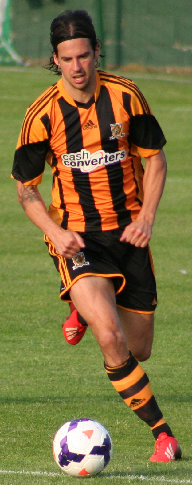 George Boyd. Image cropped from original at flickr.